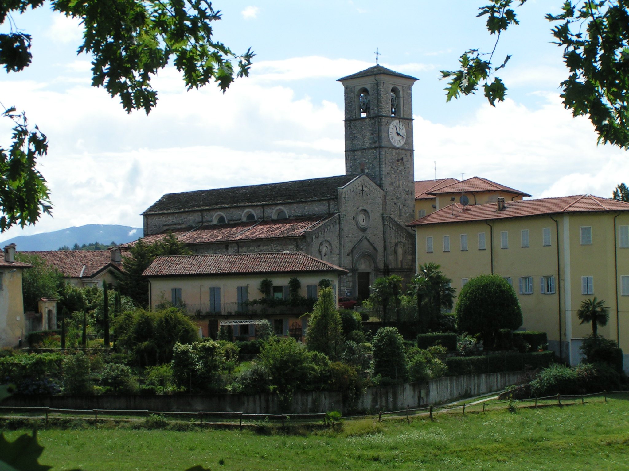 Collegiata San Vittore - Romanic church in Brezzo di Bedero